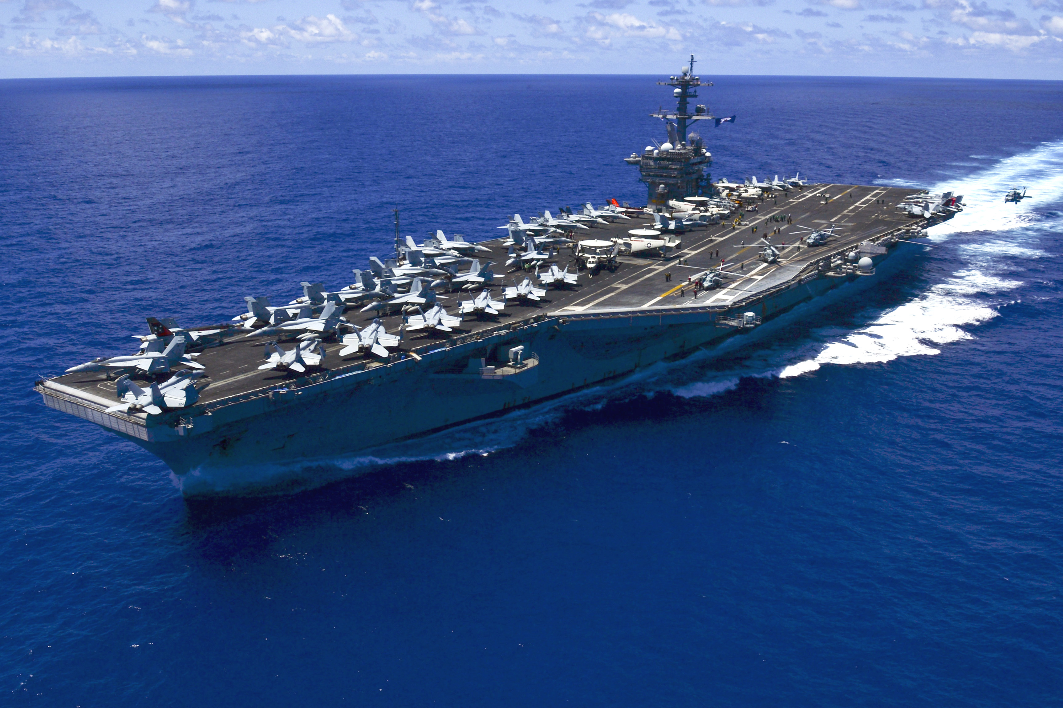 The U.S. Navy aircraft carrier USS Carl Vinson (CVN-70) transits the Pacific Ocean on 31 May 2015. Carl Vinson and its embarked air wing, Carrier Air Wing 17 (CVW-17), were in the U.S. 3rd Fleet area of operations returning to homeport after a deployment to the U.S. 5th and 7th Fleets.